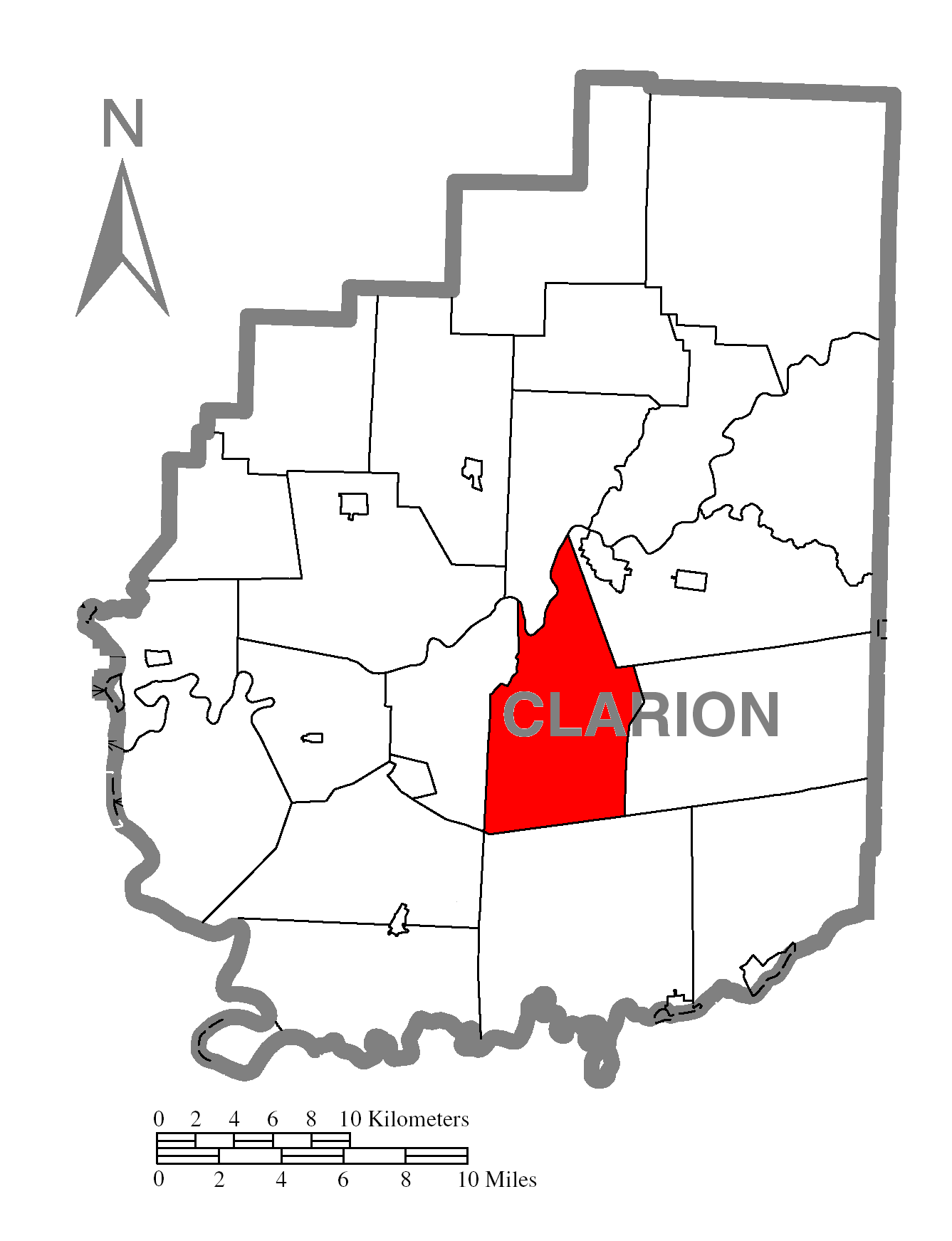 A map of Clarion County showing Monroe Township, Pennsylvania (alternate) highlighted on the map.